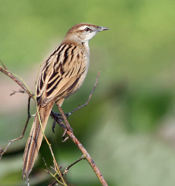 Striated Grassbird Megalurus palustris in Kolkata, West Bengal, India.